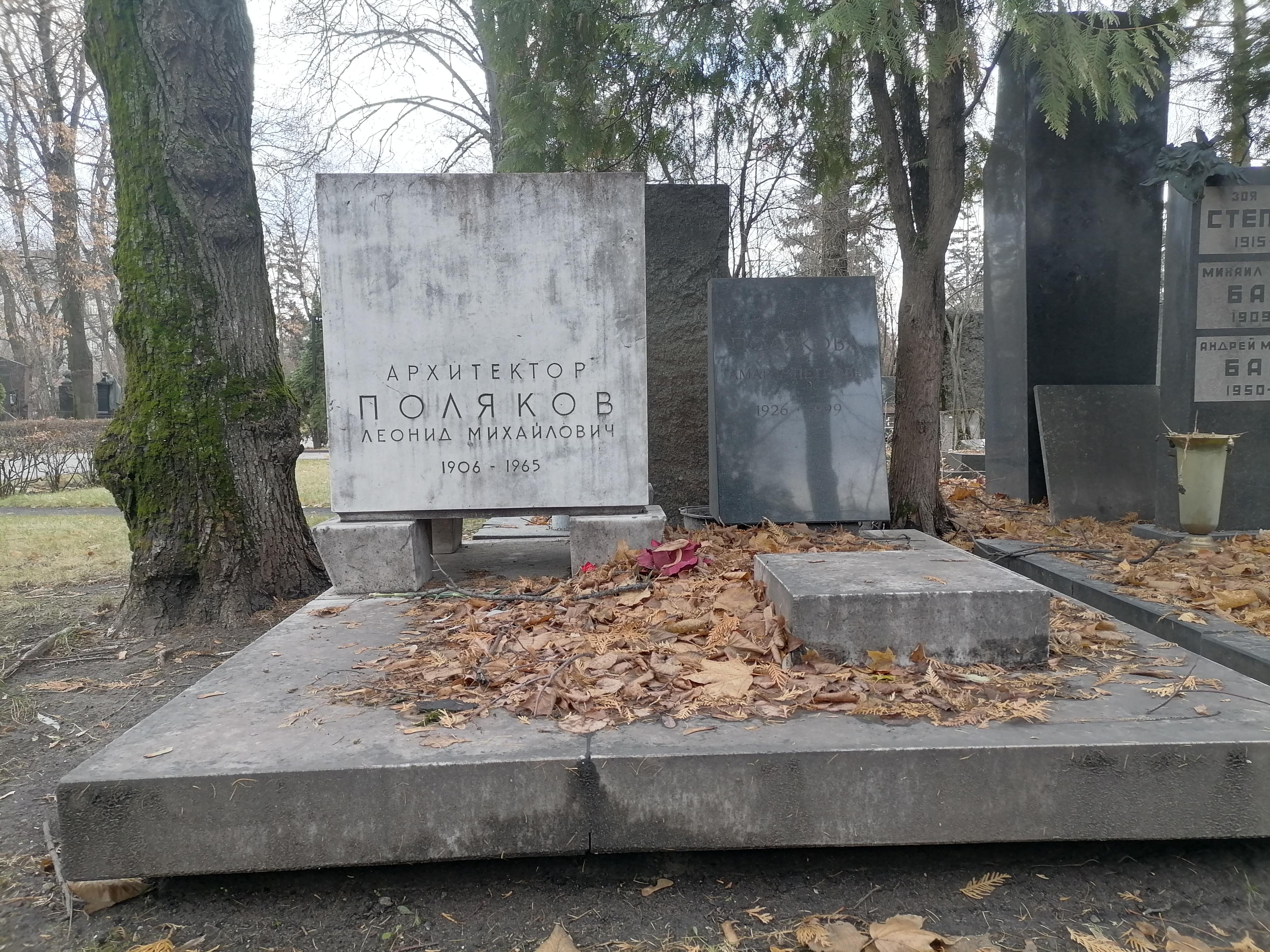 Памятник Л.М. Полякову